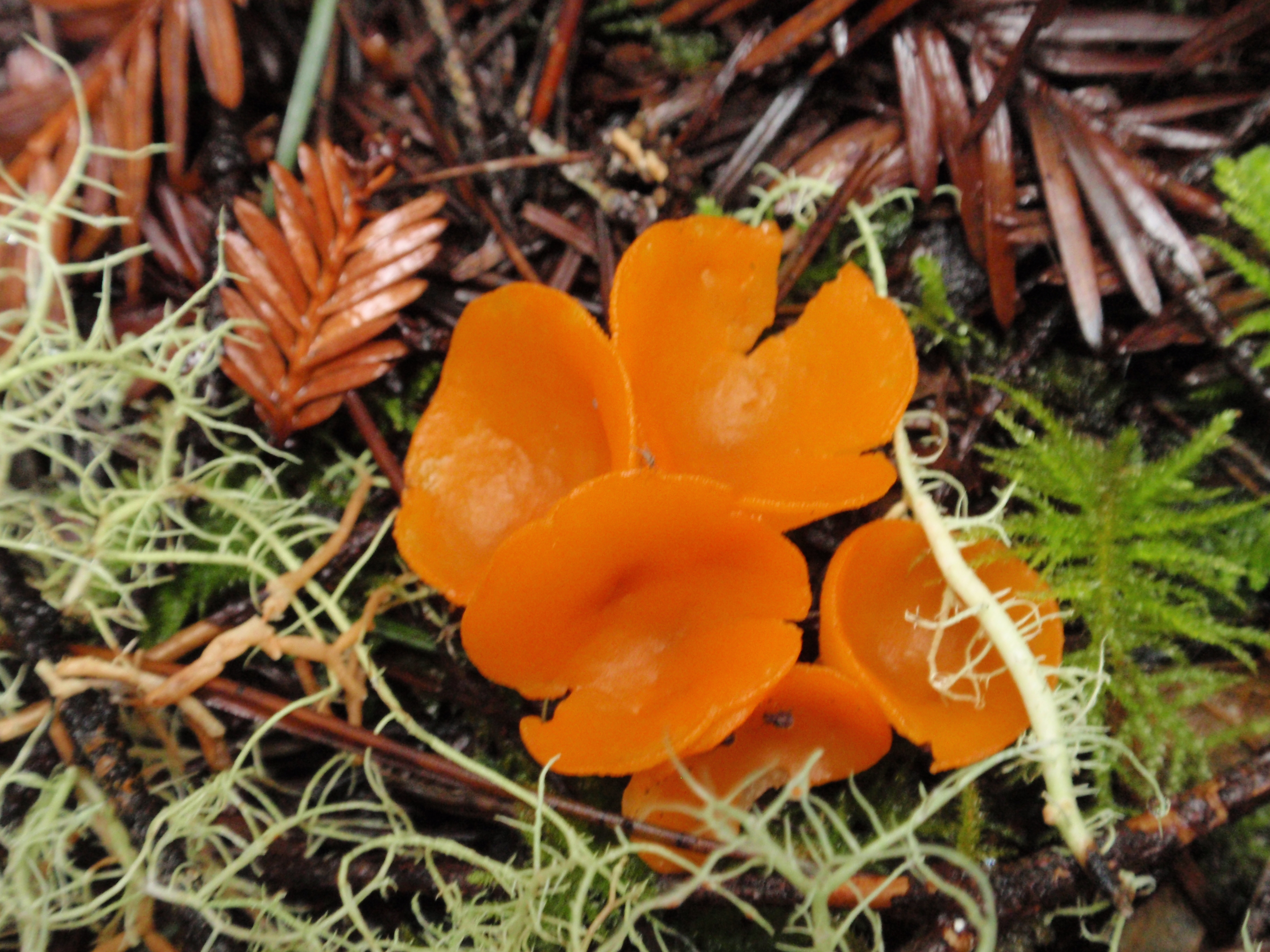 The fungus Sowerbyella rhenana — (Fuckel) Moravec. Specimen photographed in Salt Point State Park, Sonoma Co., California.